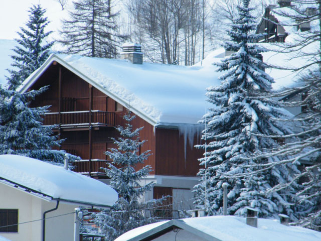 Pragelato - Olimpic Valley - Italy